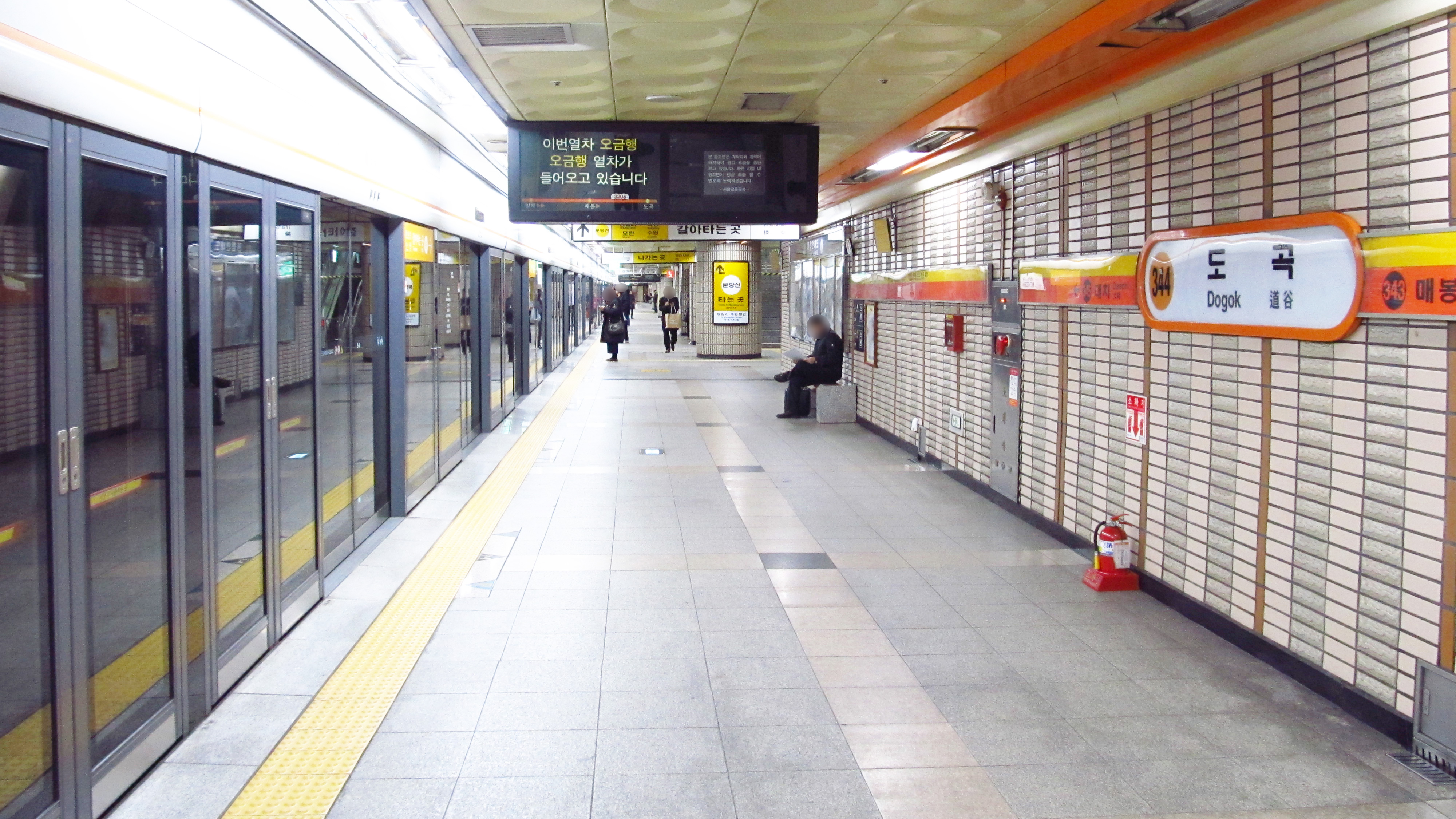 The platform at Dogok Station on Seoul Subway Line 3 in Gangnam-gu, Seoul, Republic of Korea(South Korea)